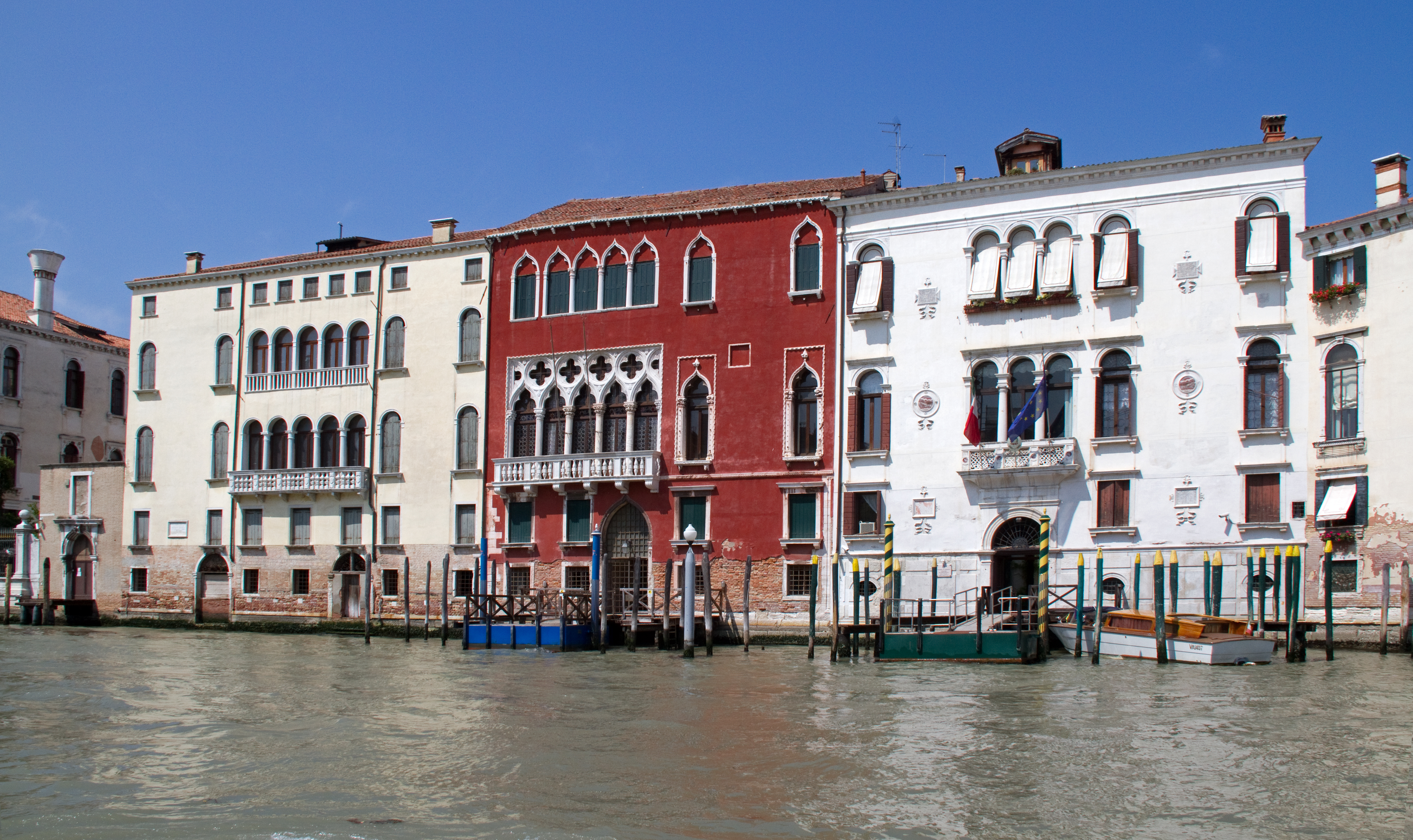 Grand Canal 30